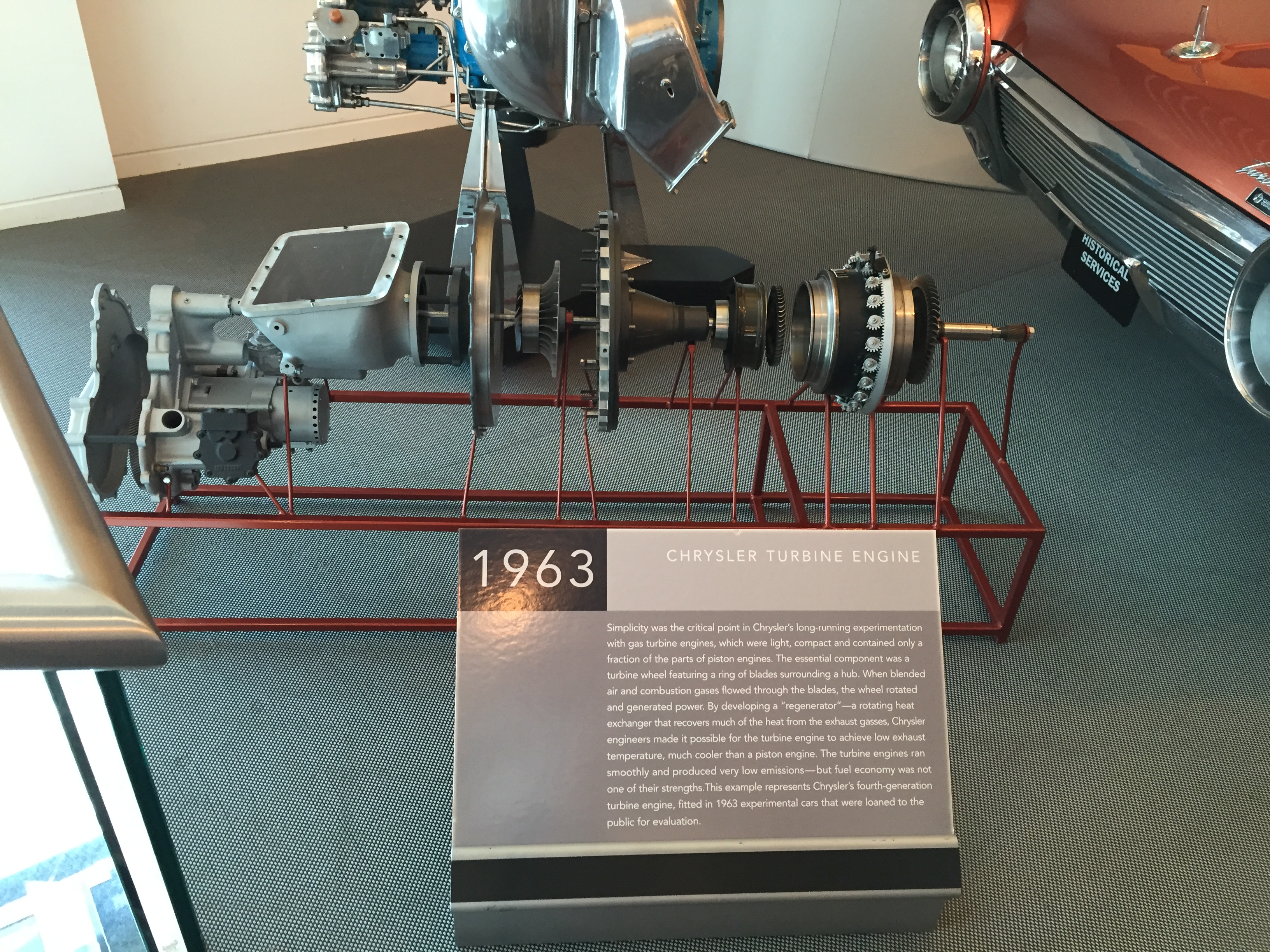 Exploded view of the A831 gas turbine at the Walter P. Chrysler Museum.